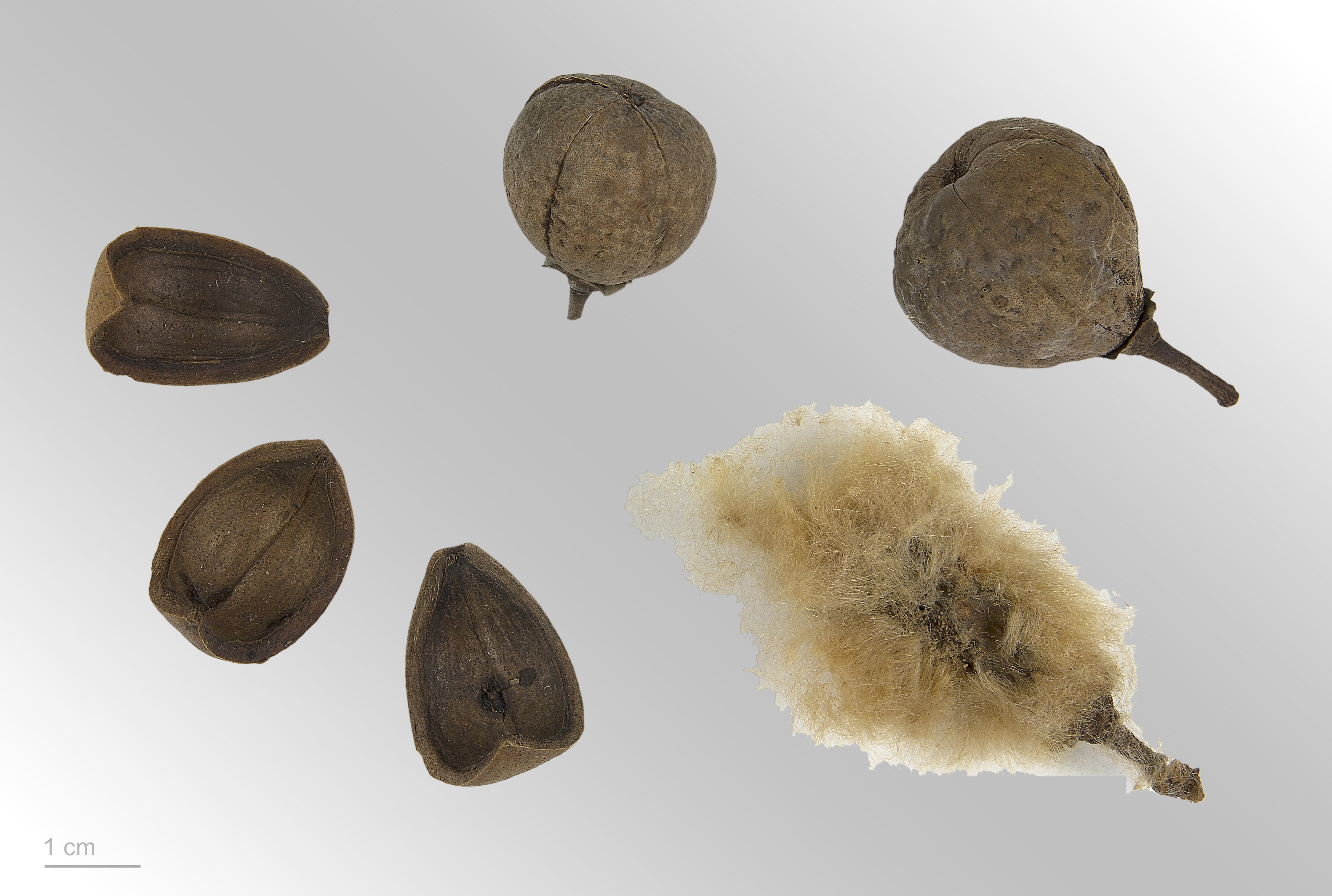 Eriotheca globosa, seeds